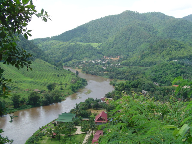 Somewhere between Chiang Mai and the border with Myanmar.